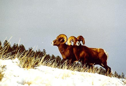 Bighorn sheep (Ovis canadensis) in Shoshone National Forest, Wyoming, United States